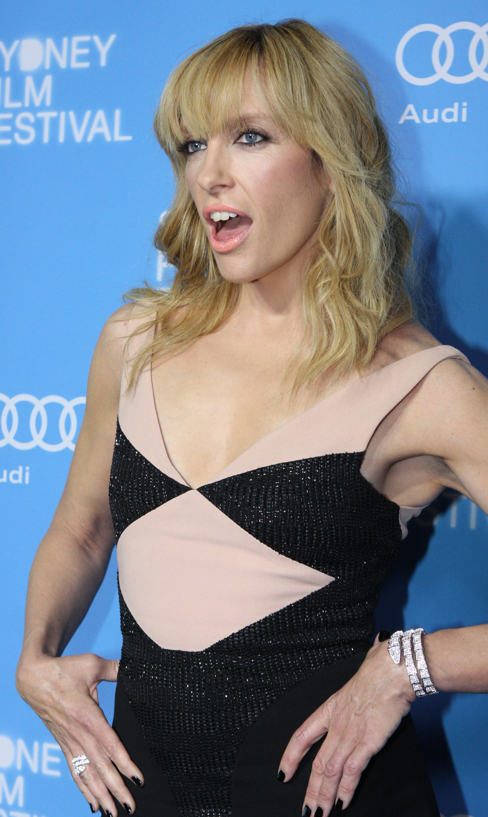 The Way Way Back Australian Movie Premiere - Toni Collette At State Theatre, Sydney, Australia - 6th June 2013 'The Way Way Back' enjoyed its Sydney red carpet premiere tonight at the beautiful State Theatre. The movie is part of the current Sydney Film Festival, which has thousands of Sydney movie lovers braving the cold and wet weather than this season is shedding upon Sydney. Promo: Funny, smart and uplifting, The Way, Way Back is a well-crafted coming-of-age comedy with winning performances by a stellar cast. Fourteen-year-old Duncan (Liam James) is forced to spend the summer vacation with his mother Pam (Toni Collette), her condescending boyfriend Trent (Steve Carell) and his mean-girl daughter. Constantly humiliated, Duncan struggles until he meets Owen (Sam Rockwell, in arguably his best performance), the manager of a somewhat dishevelled Water Wizz water park. Rebellious, relaxed, and very funny, Owen pokes fun at Duncan, but at the same time gives him the confidence to stand up for himself and find his place in the world. Directors Jim Rash and Nat Faxon are the Oscar®-winning writers of The Descendents and both accomplished actors themselves - Rash in Community and Faxon in Ben and Kate. Here they have made a heartwarming, inspiring and hilarious film. Plot Outline During a vacation in a Northeast beach town, a lonely teenage boy, Duncan (Liam James), comes into his own over the course of a summer through an unlikely friendship with the manager of a local water park (Sam Rockwell). Duncan’s mother, Pam (Toni Collette), alienates her young son through her determined efforts to make her relationship work with her carousing boyfriend (Steve Carell) whose disingenuous attempts to build a family are immediately transparent to Duncan. Sydney Film Festival screenings: Thursday 6 June, 9:30 PM State Theatre Monday 10 June, 4:15 PM Event Cinemas George Street Websites The Way Way Back Facebook State Theatre Sydney Film Festival Eva Rinaldi Photography